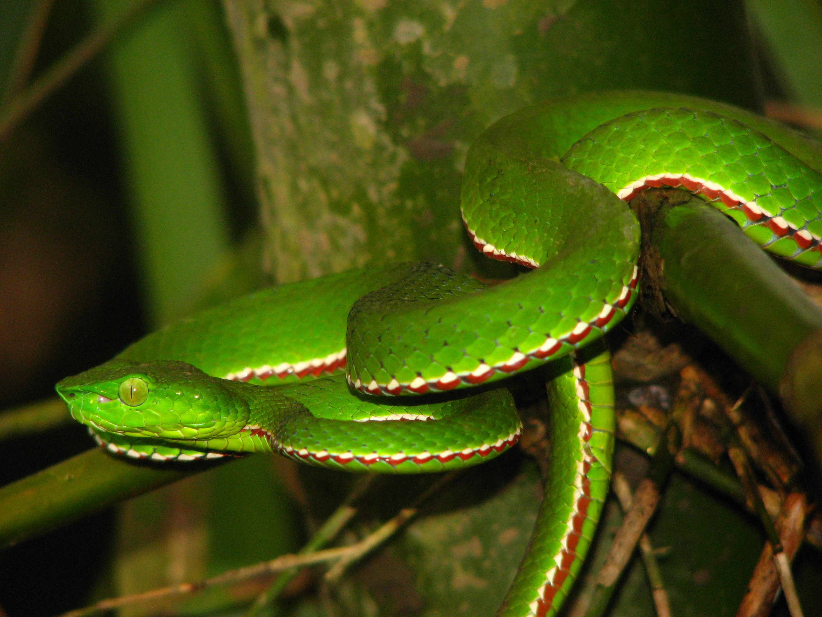 Photo taken in Gandhigram Village, Arunachal Pradesh, India